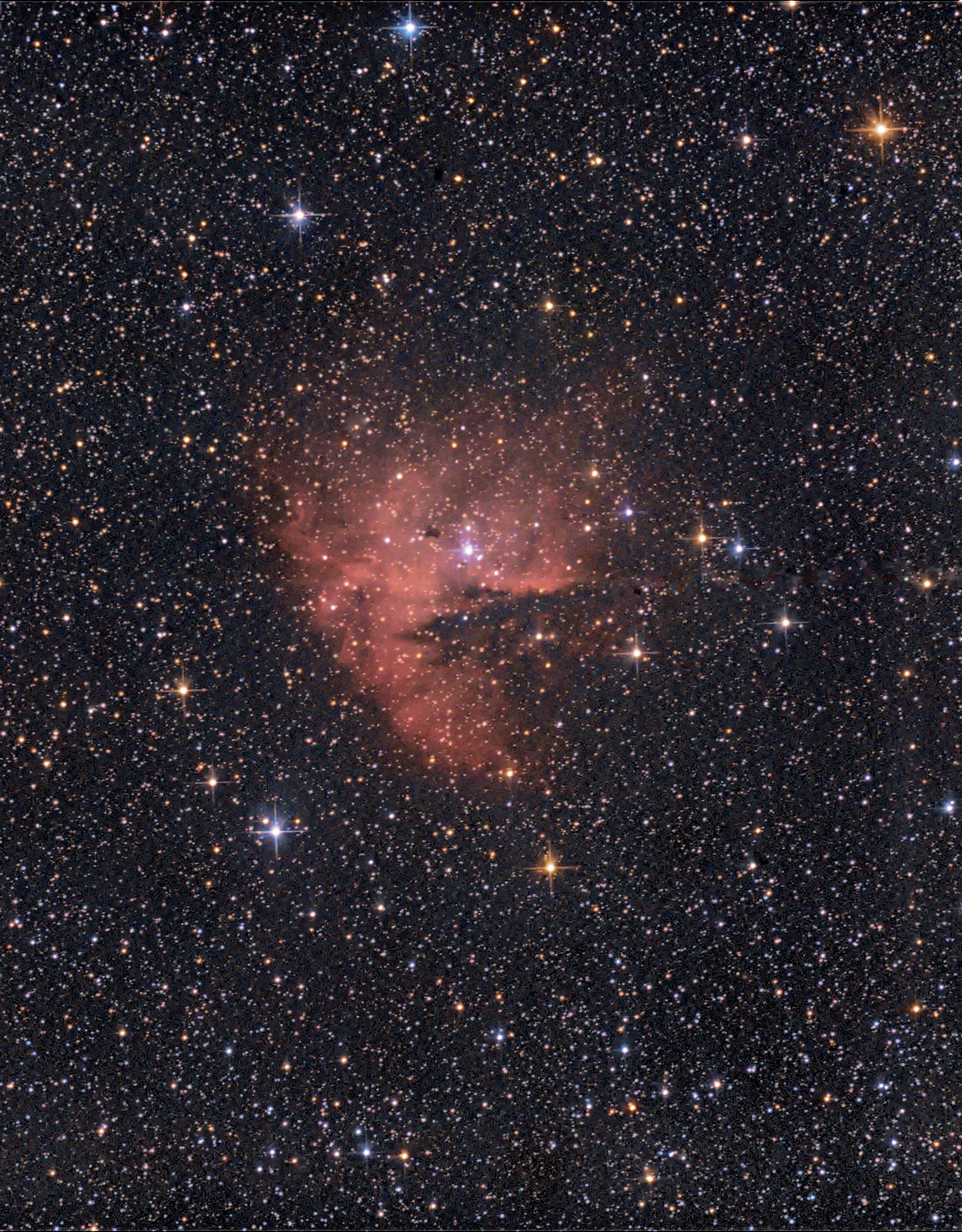 NGC281, popularly the 'Pacman Nebula', imaged using a Skywatcher 130P-DS and astro-modded Canon 450D DSLR on an EQ3 mount in a suburban location.